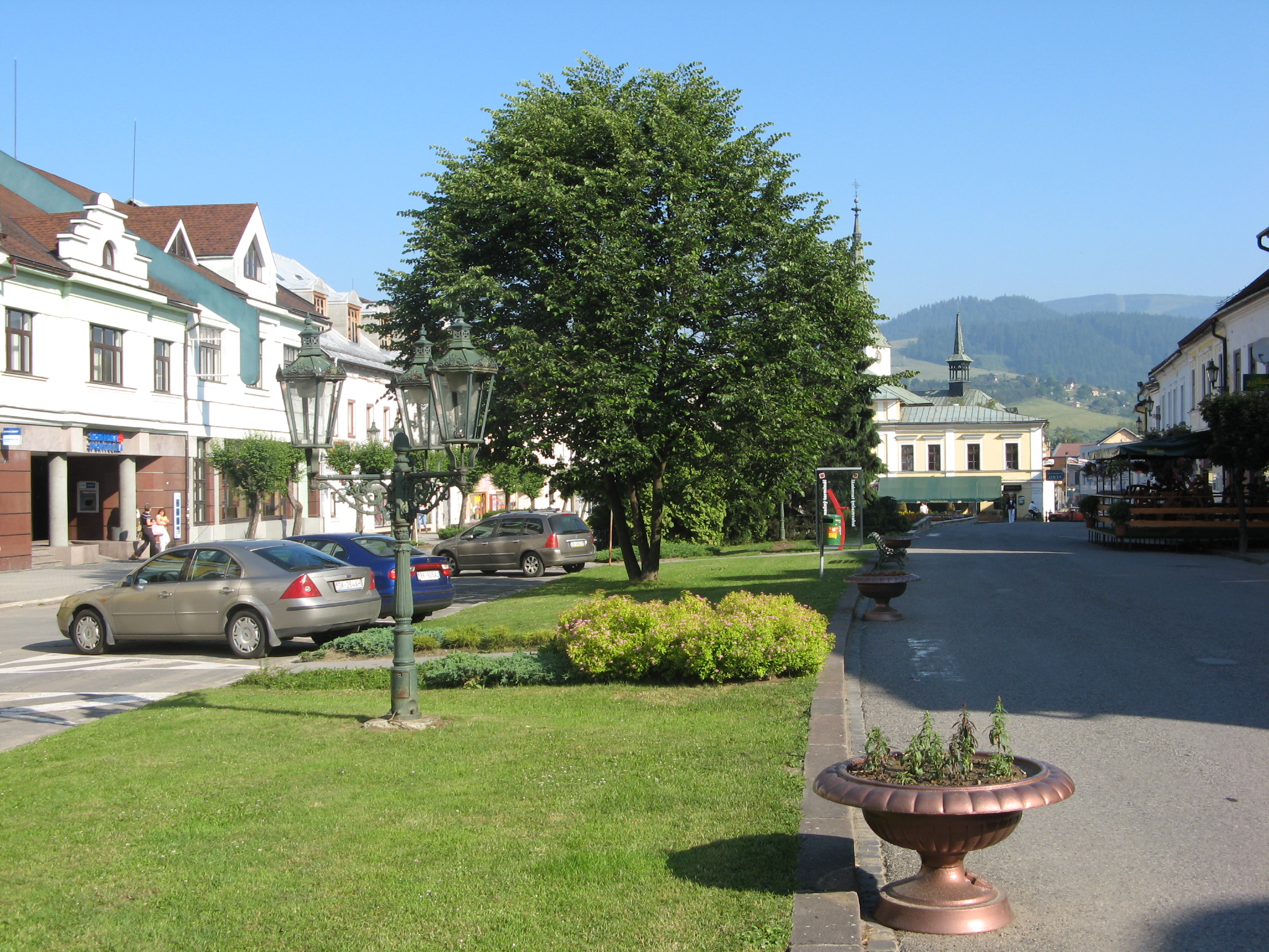 Center of town of Dolny Kubin. Mountains in background